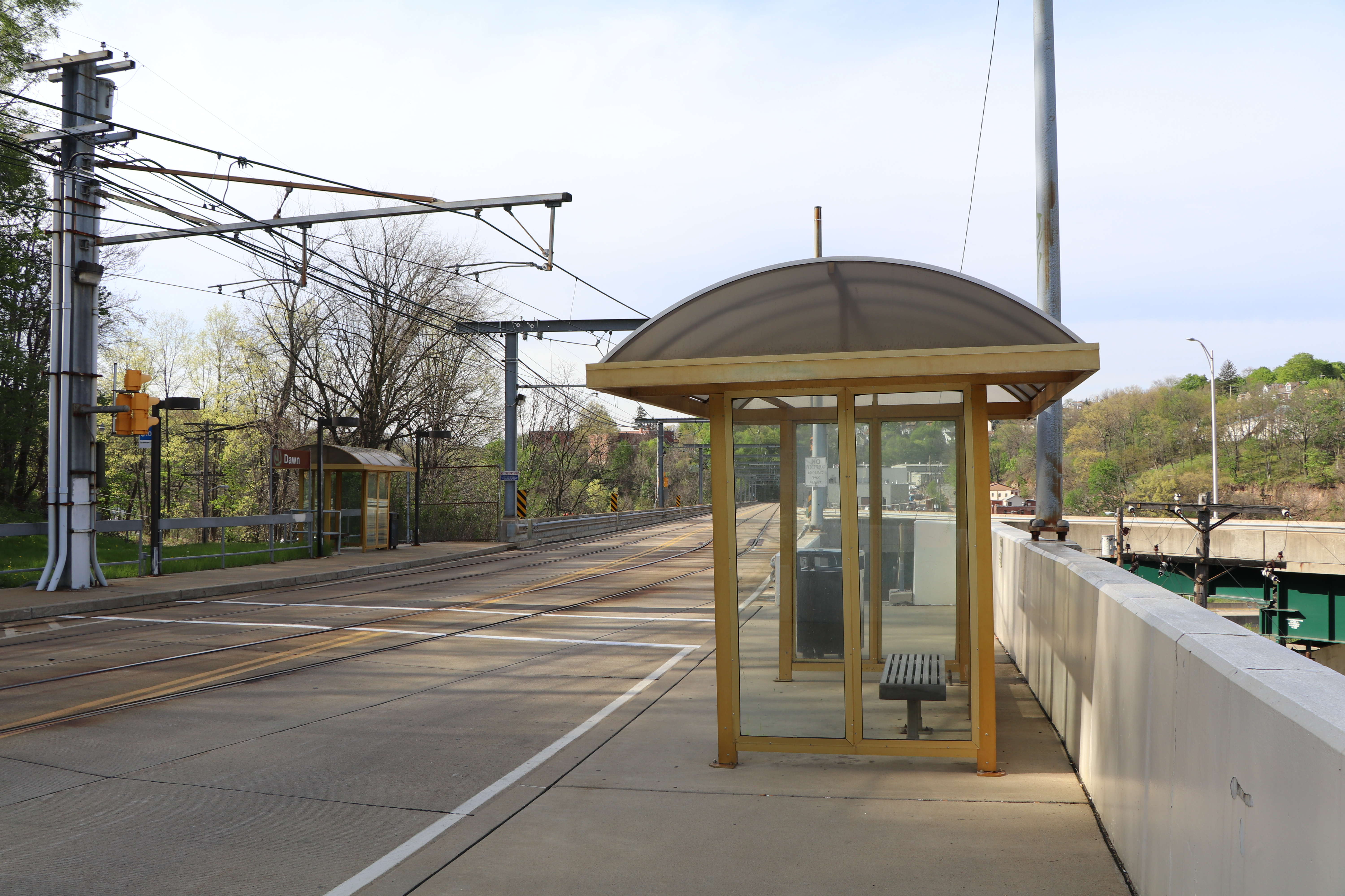 Dawn station on the Red Line, Pittsburgh, PA. View looking north at the inbound shelter. The South Busway merges from the right in the background.